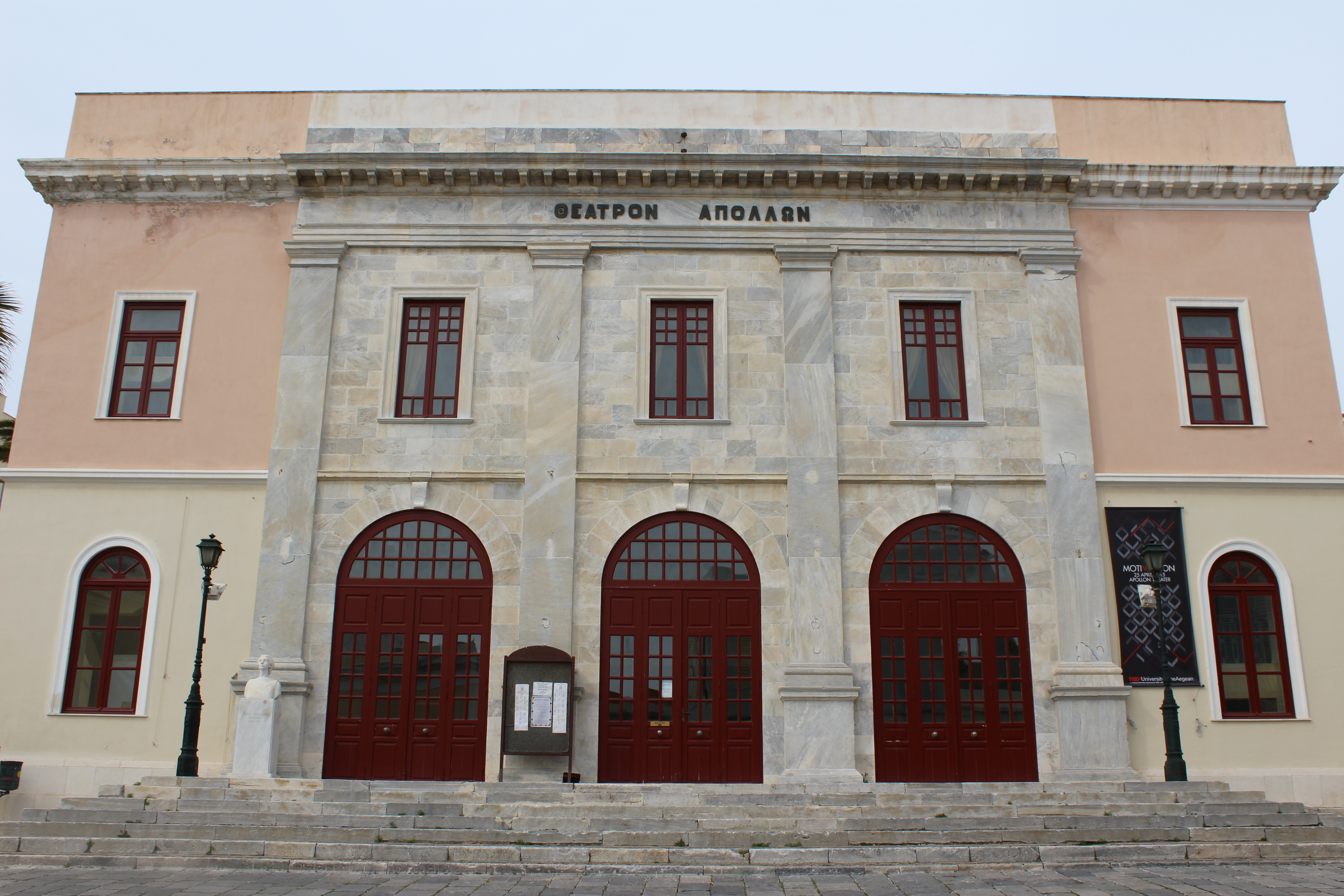 Apollon Theater, in Ermoupolis, Syros